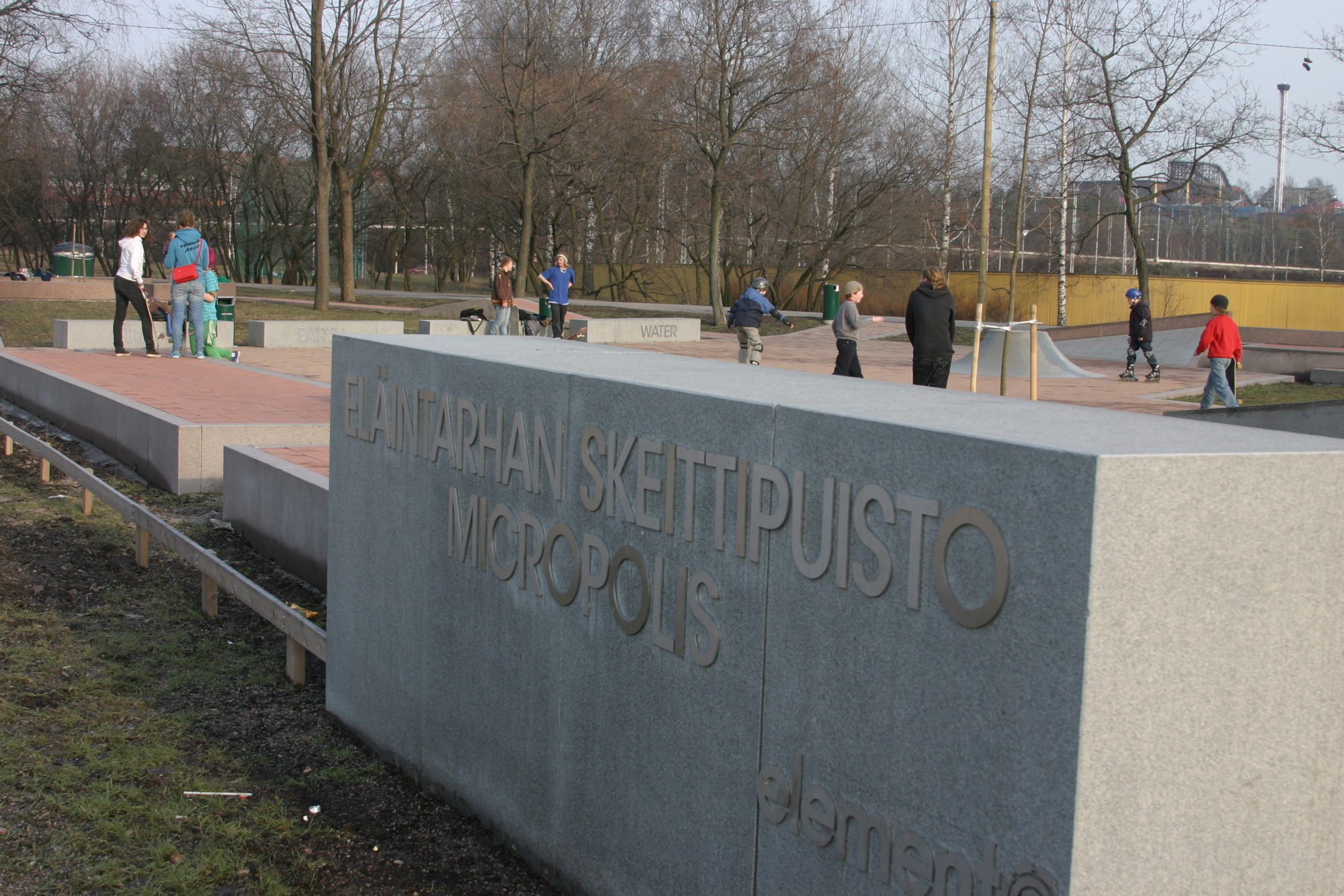 Label of Micropolis Skatepark in Helsinki, Finland